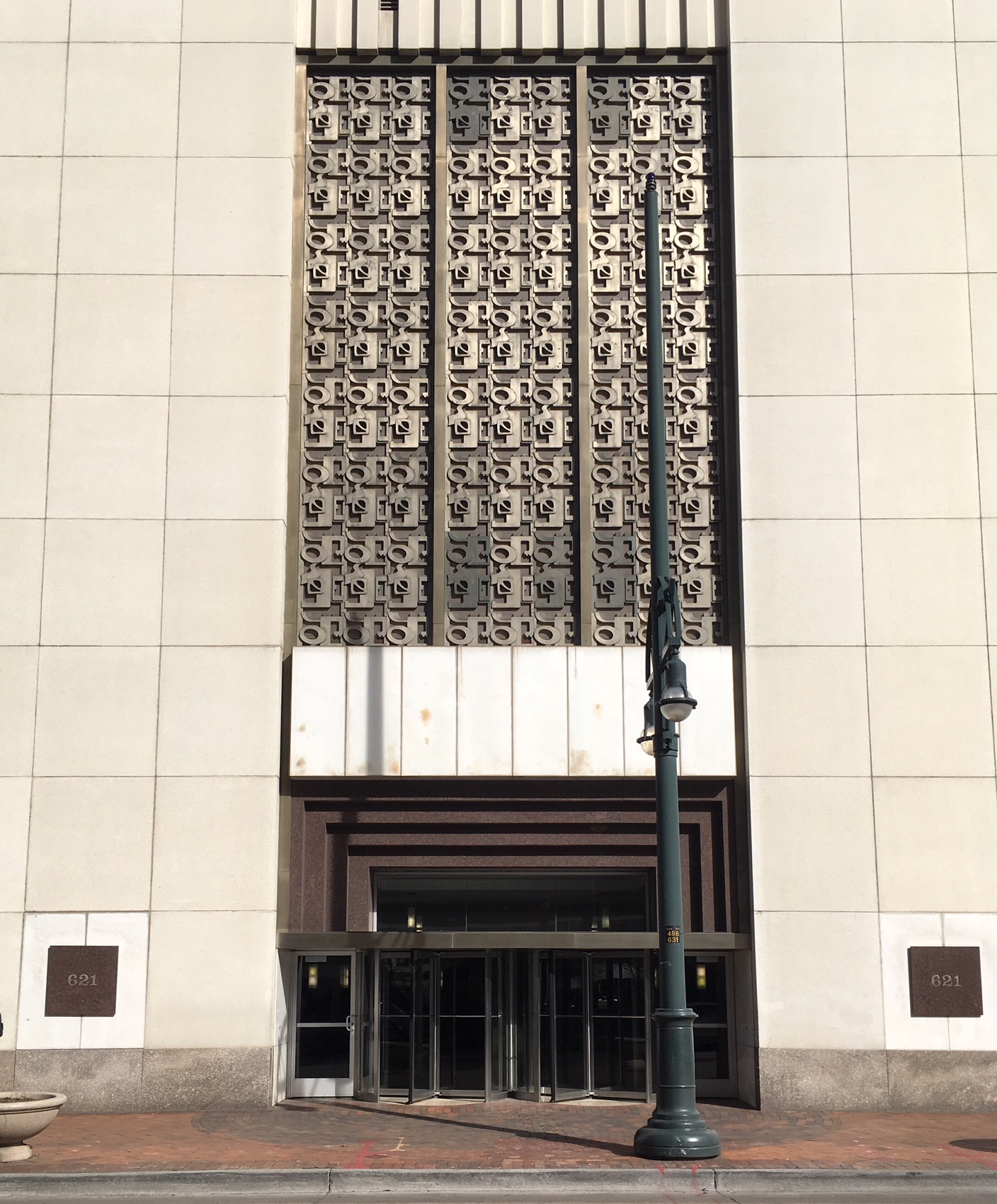 Detail of the entrance to the 621 17th Street building (formerly the First Interstate Tower South), in Denver, Colorado